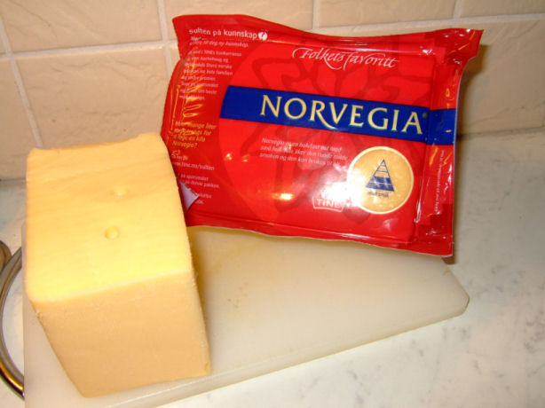 Norvegia, popular Norwegian cheese